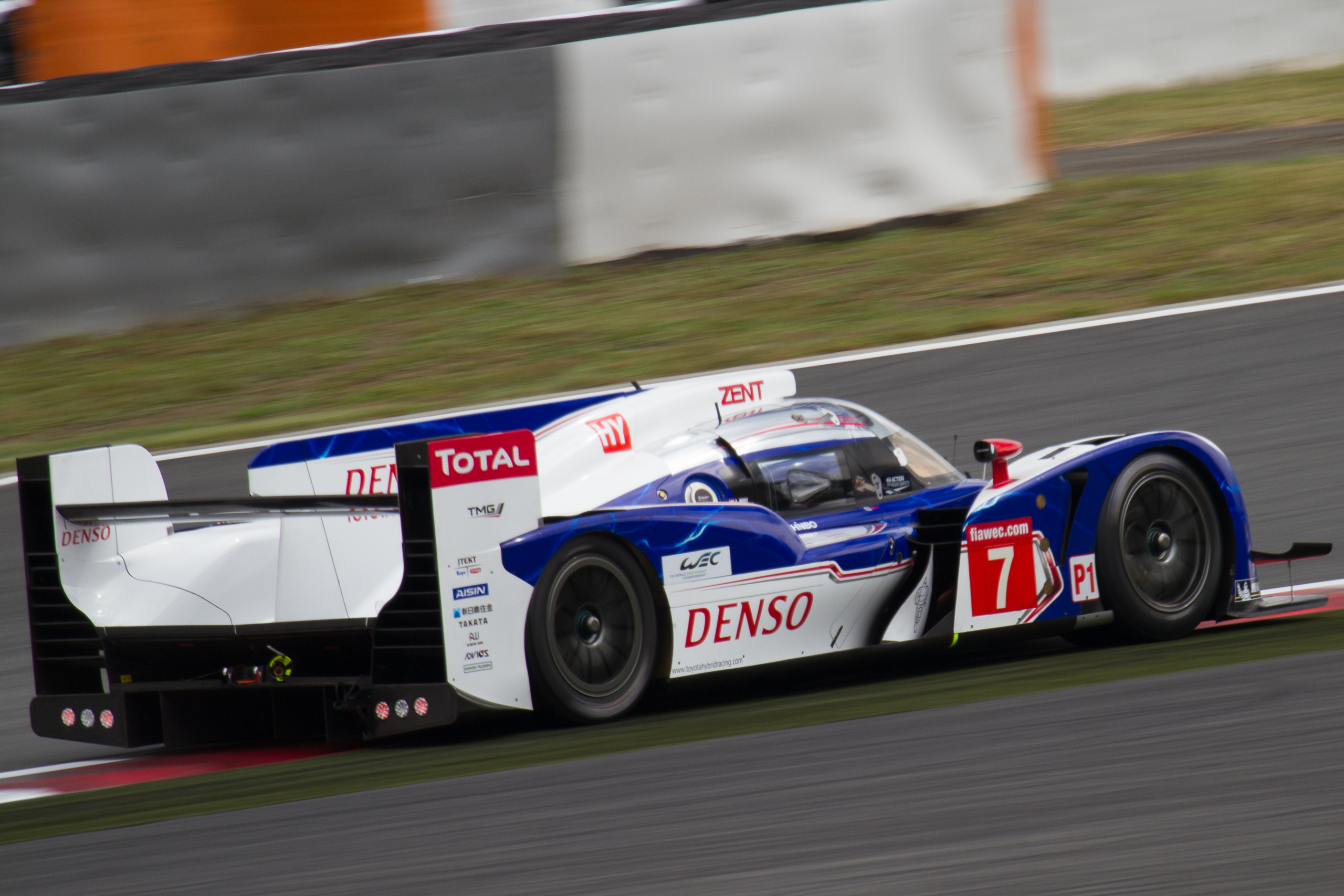 FIA World Endurance Championship 2012 Rd.7 6 Hours of Fuji: #7 Toyota TS030 Hybrid (Toyota Racing)